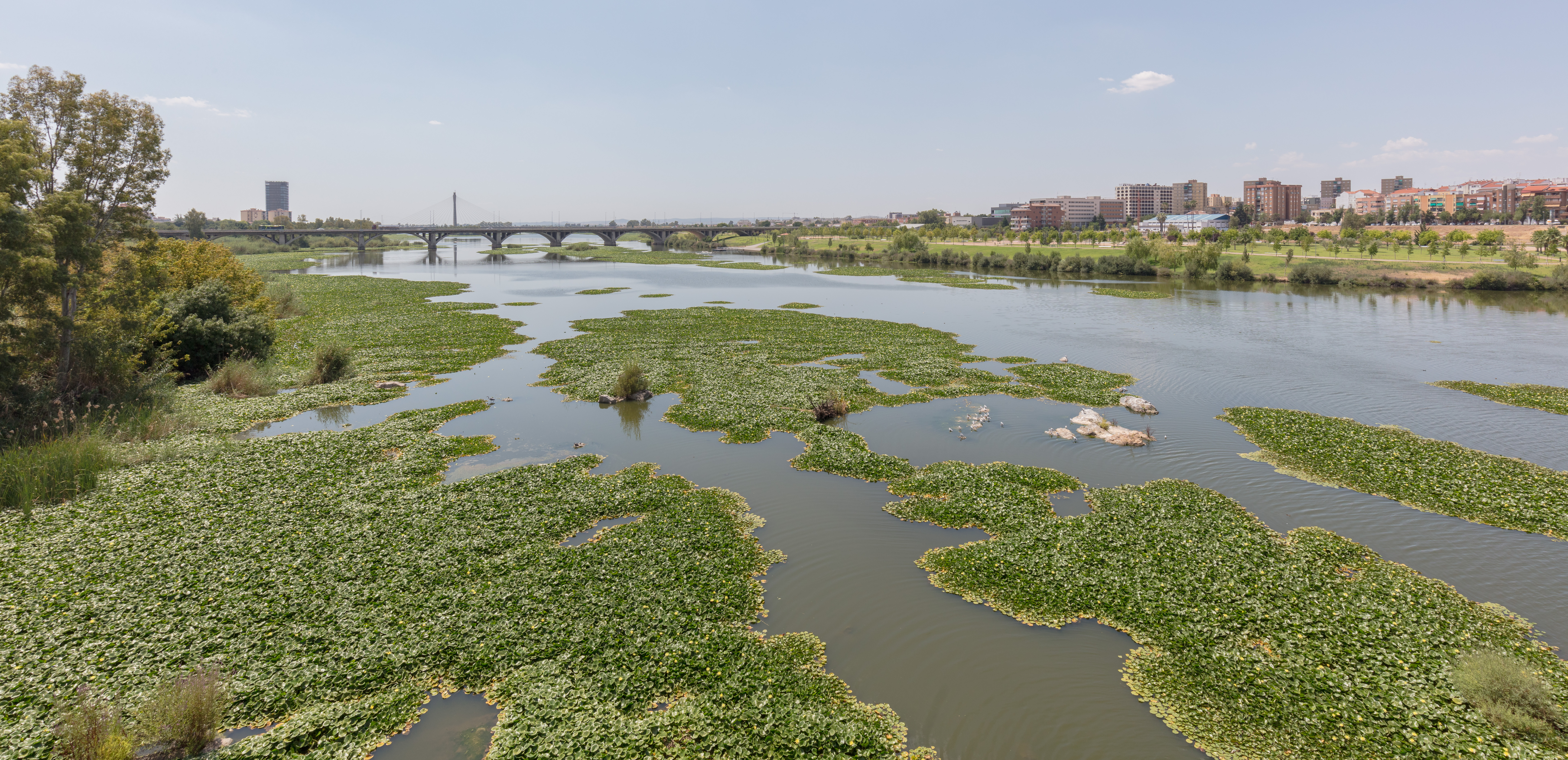 University Bridge over the Guadiana River, Badajoz, Spain